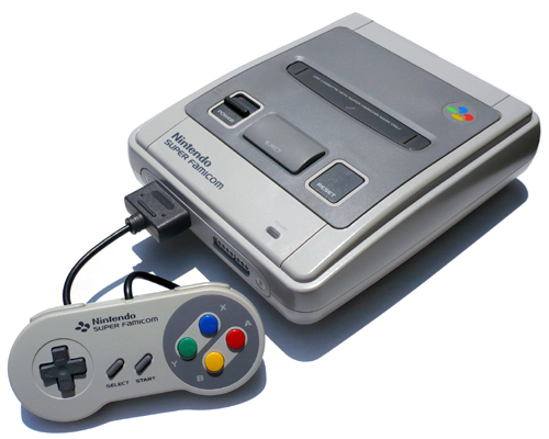 Nintendo Super Famicom (SHVC-001) with controller (SHVC-005).